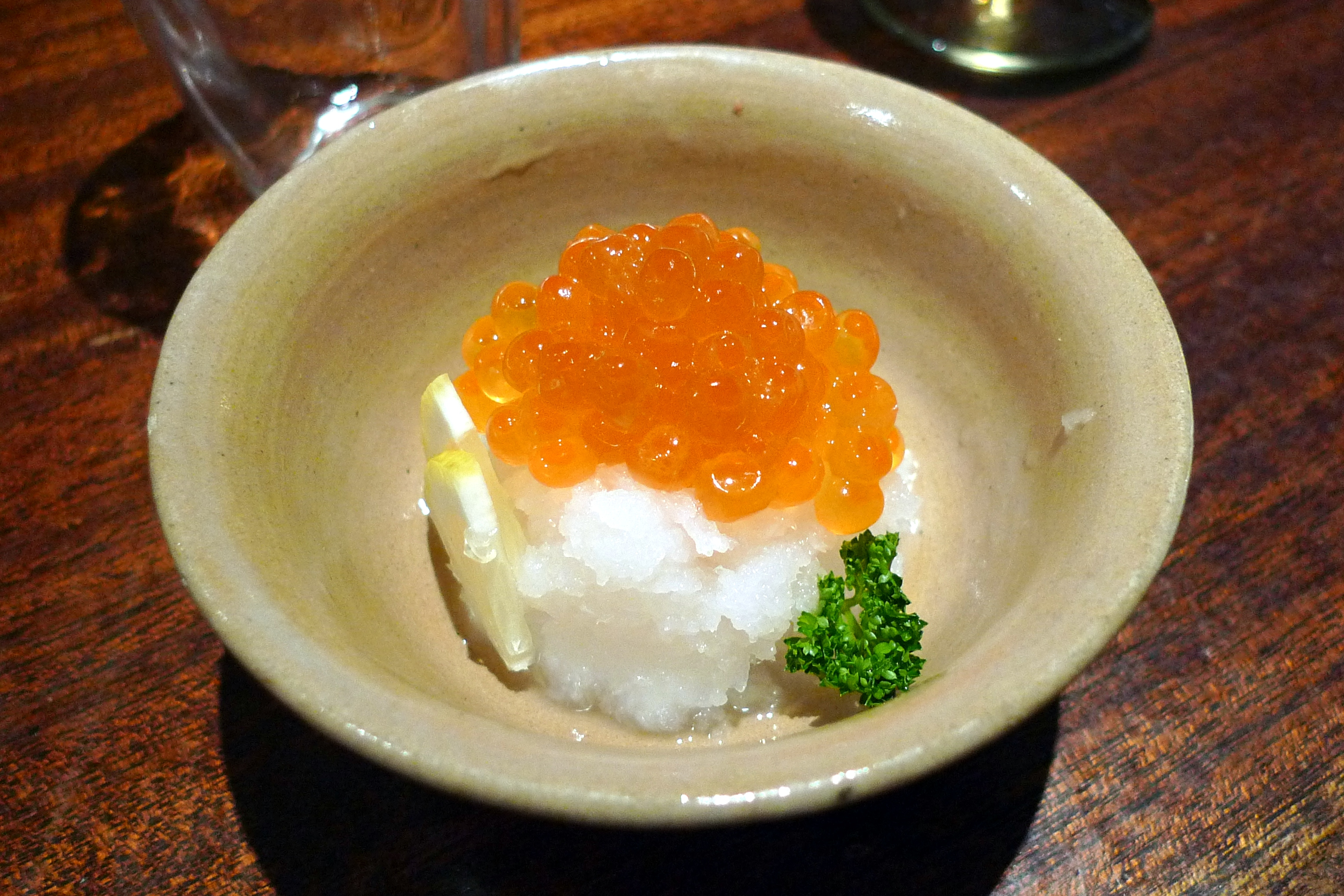 Ikura oroshi, with salmon eggs on grated daikon radish (OK, I've copied Kake's comment below). At Jin Kichi, Heath Street.